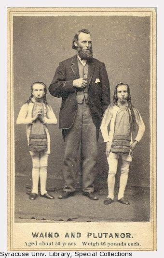 "Waino and Plutanor," Disability History Museum, (October 25, 2007). From the collections at Syracuse University.